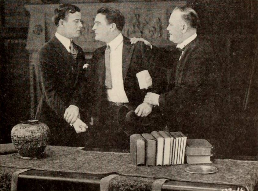 Till from the American drama film Hell's End (1918) with Charles Dorian, William Desmond, and Ward Canfield (note: IMDB does not list an actor by this name for this or any other film), on page 35 of the July 20, 1918 Exhibitors Herald.